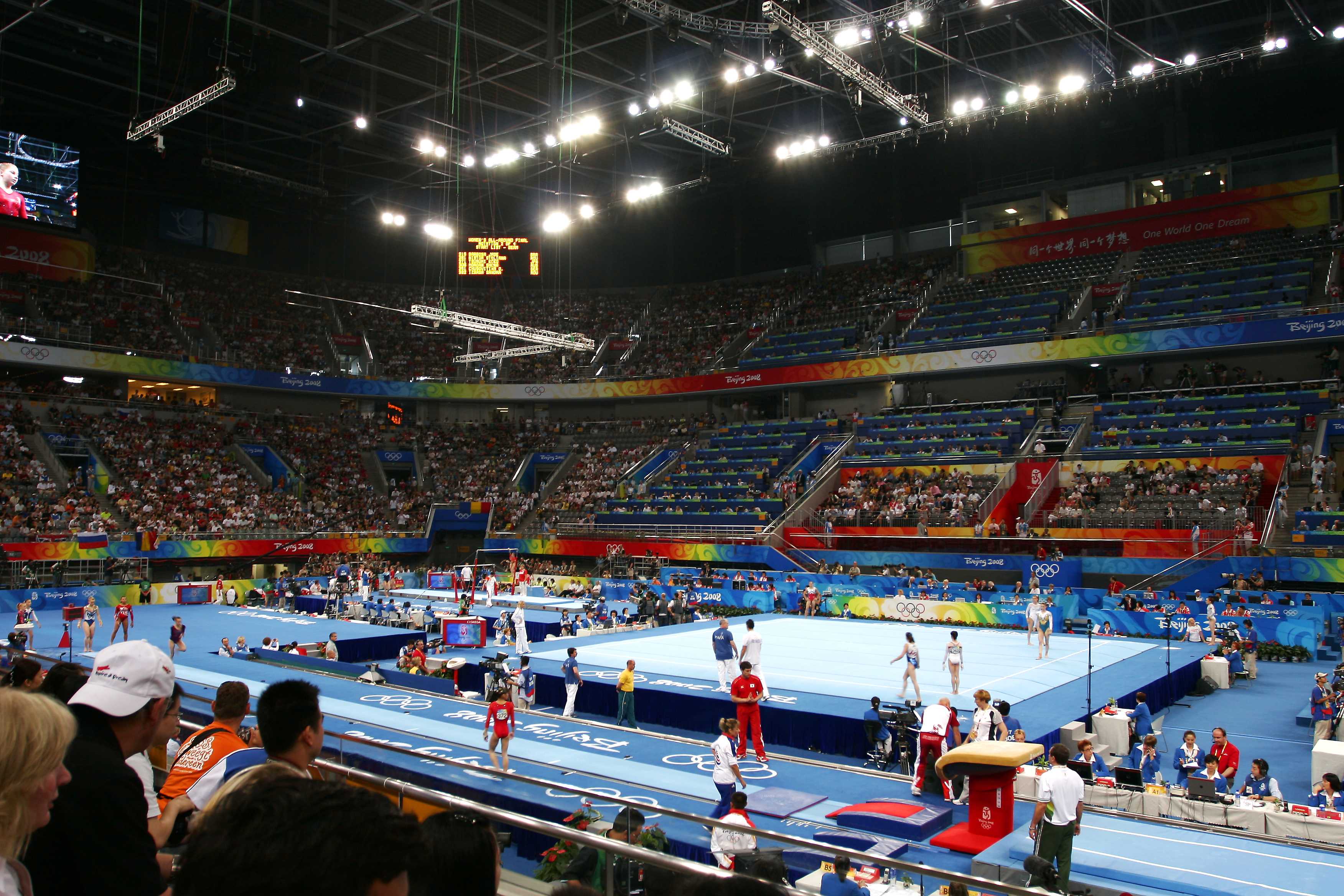 Women's all-around gymnastics competition on Aug. 15, 2008.